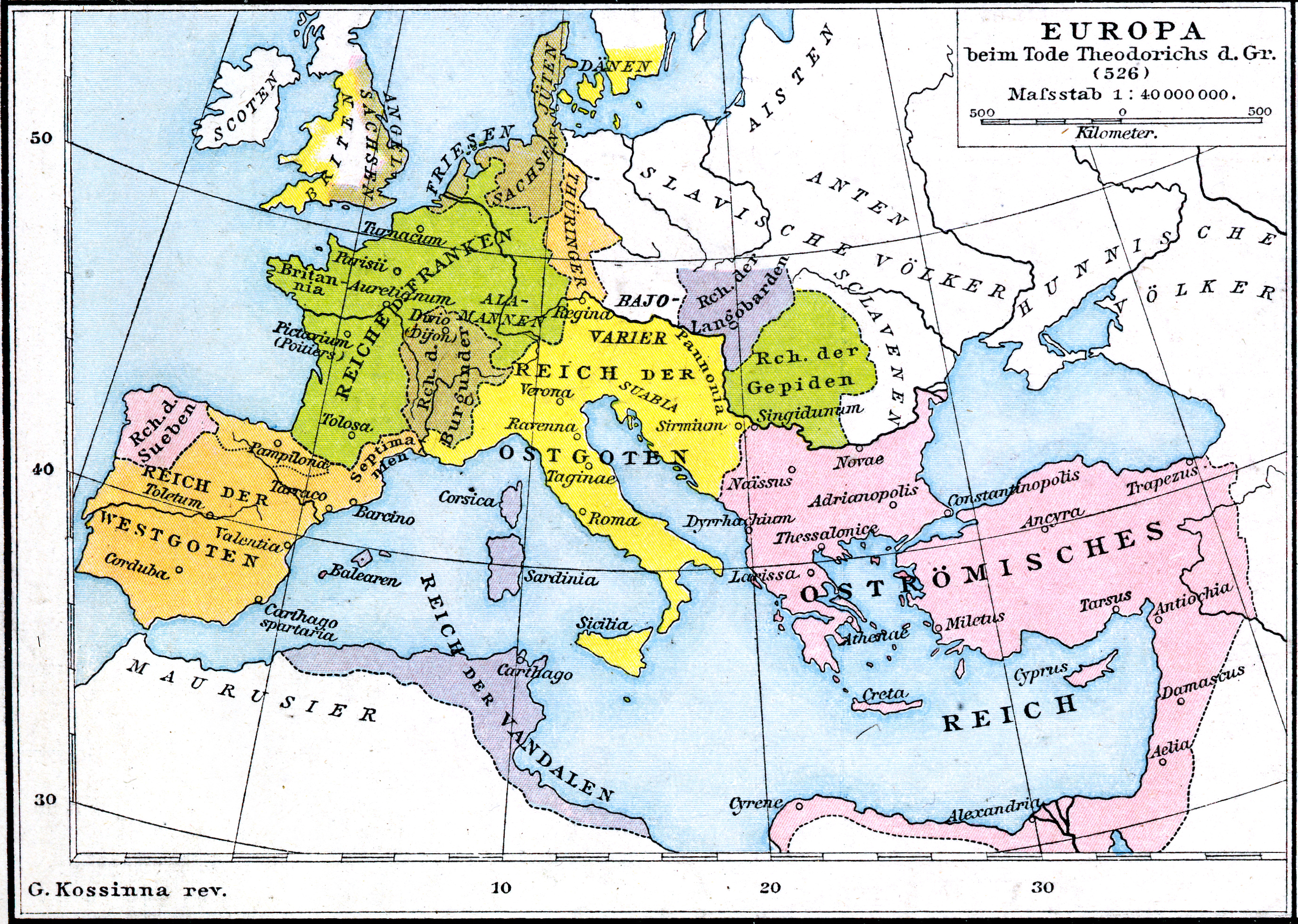 Third map (of four) from plate 19 of Professor G. Droysen's Allgemeiner Historischer Handatlas, published by R. Andrée. Plate is titled "Europa zur Zeit der Völkerwanderung". This map is titled "Europa beim Tode Theoderichs d. Gr. (526)